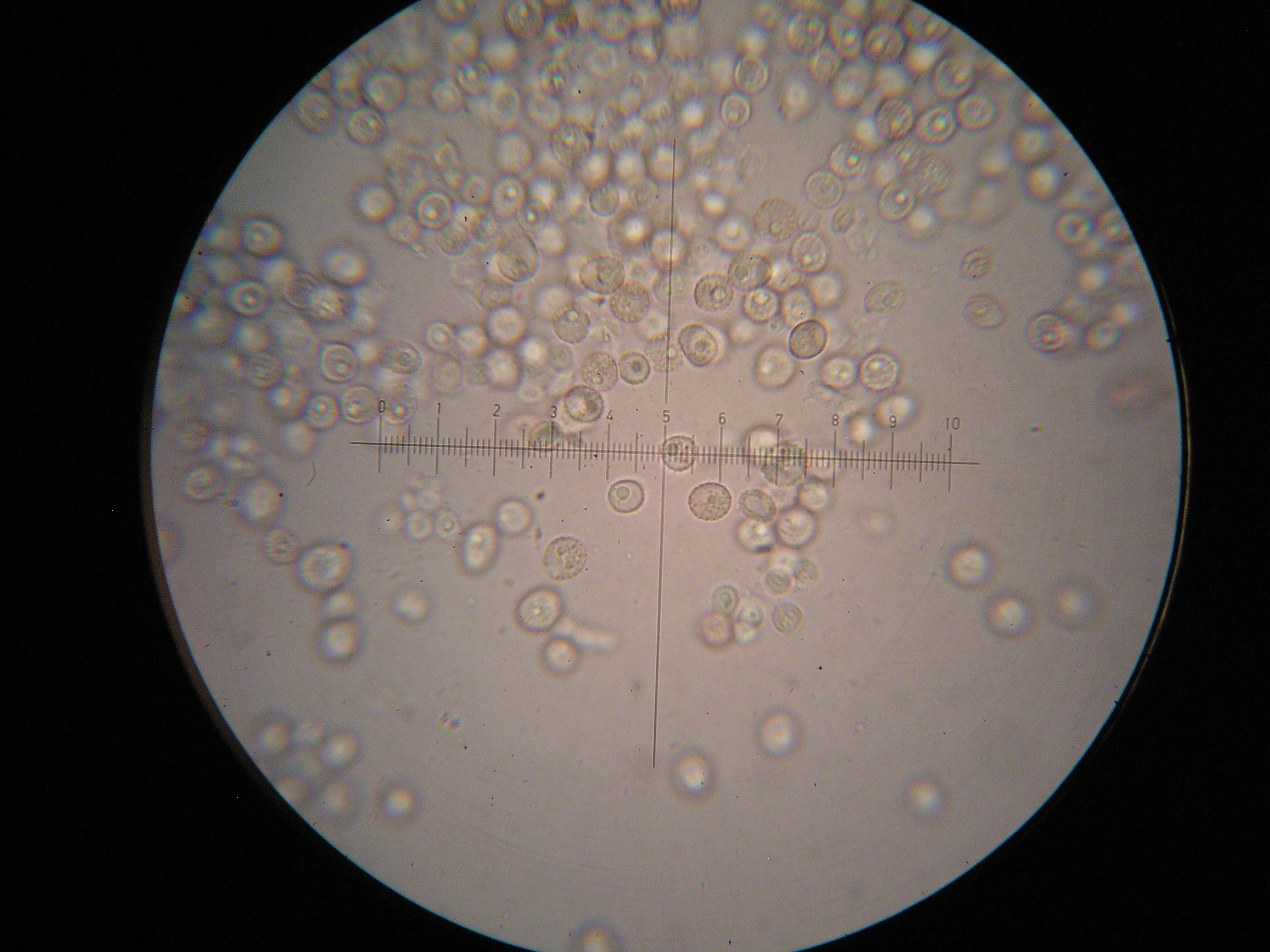 Spores of the smut Fungi Microbotryum violaceum on Silene pusilla (valid synonym : Heliosperma pusillum) anthera (Germany)